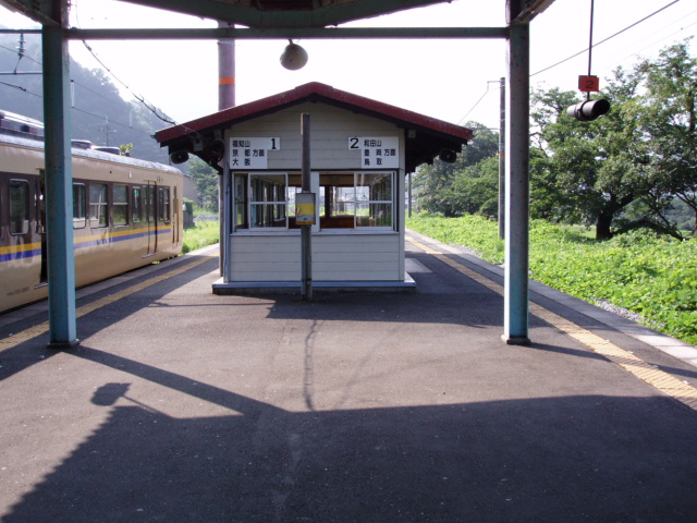 West Japan Railway Sanin Line Yanase Station Platform